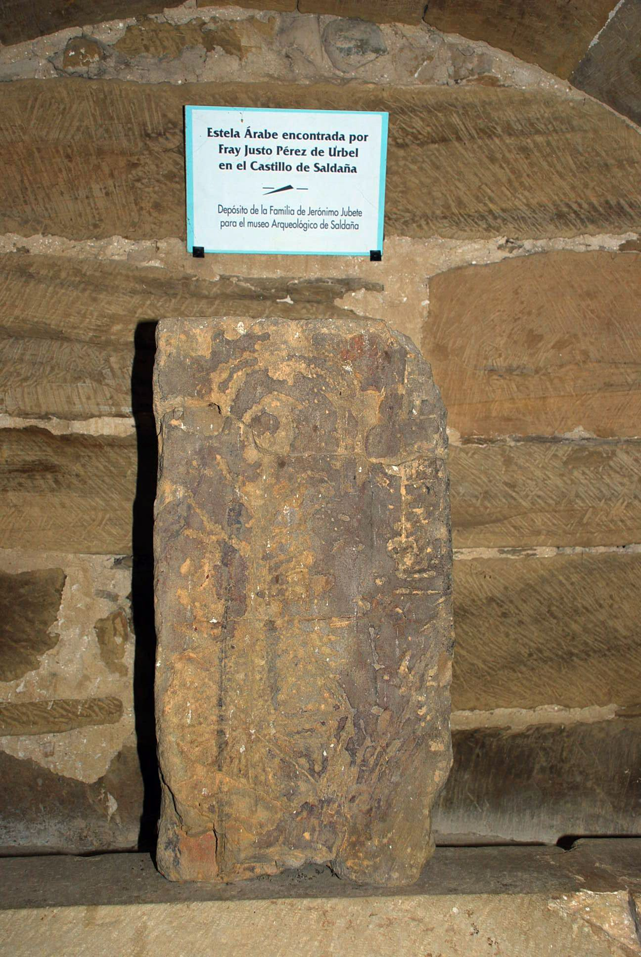 Arabic Stele found by Fray Justo Pérez de Urbel in castle of Saldaña (Palencia, Castile and León). Deposit of Jerome Jubete’s family to the Archaeological Museum of Saldaña.